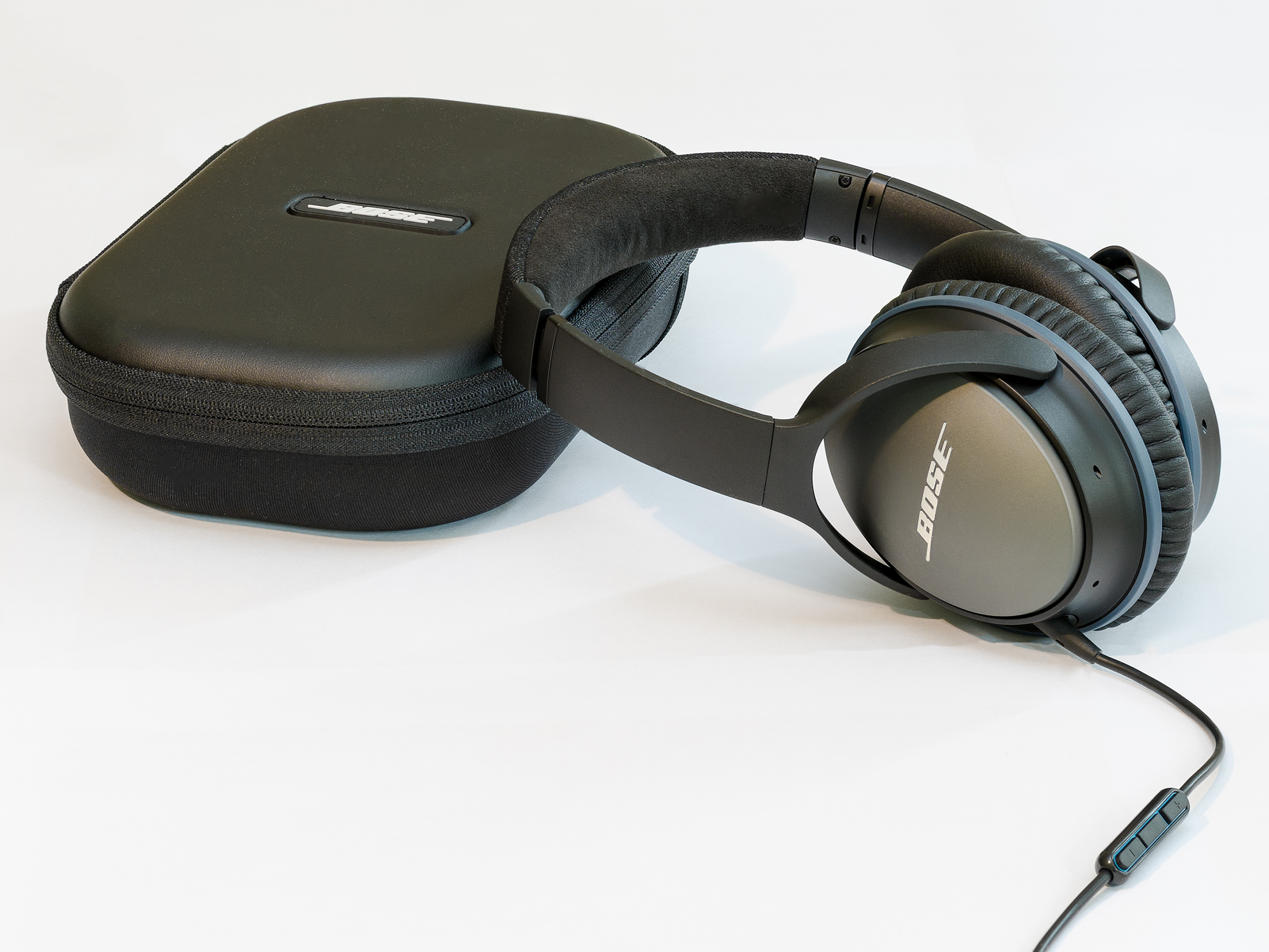 Bose QuietComfort 25 Acoustic Noise Cancelling Headphones with Carry Case